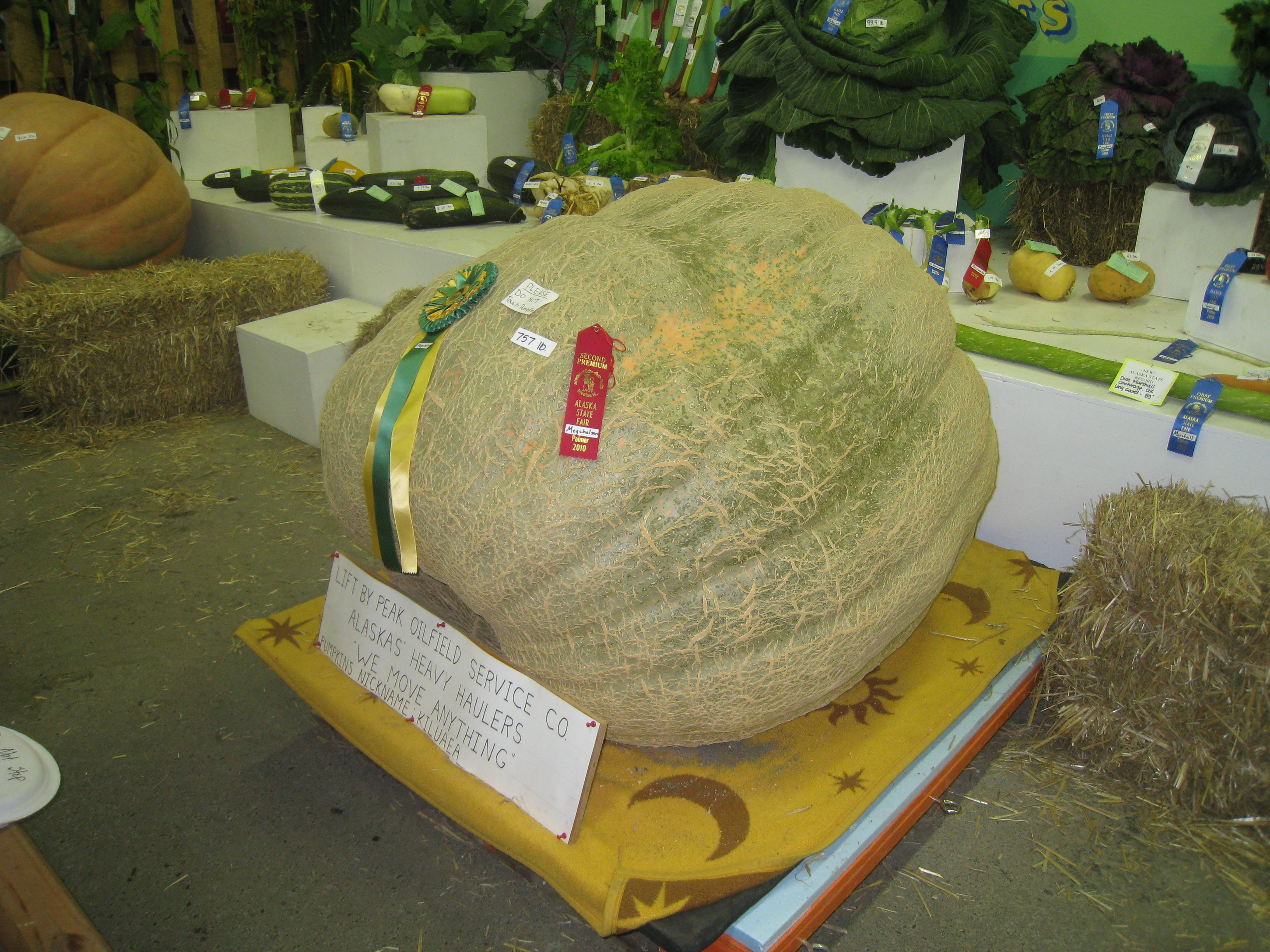 Super veggies at the Alaska State Fair; note the sign from the machinery moving company "We move anything".